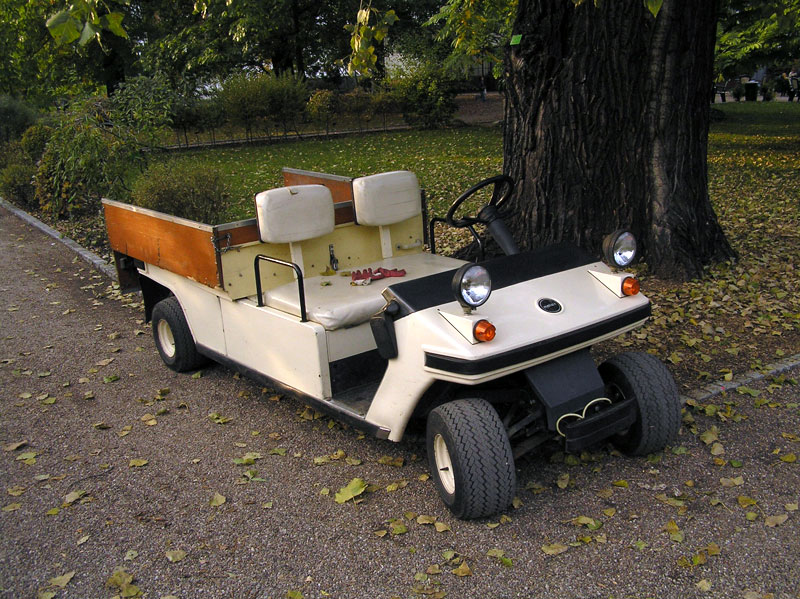 Polish electric vehicle Melex